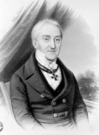 Isaac Jacob Schmidt (October 4, 1779 – August 27, 1847) was an Orientalist specializing in Mongolian and Tibetan.